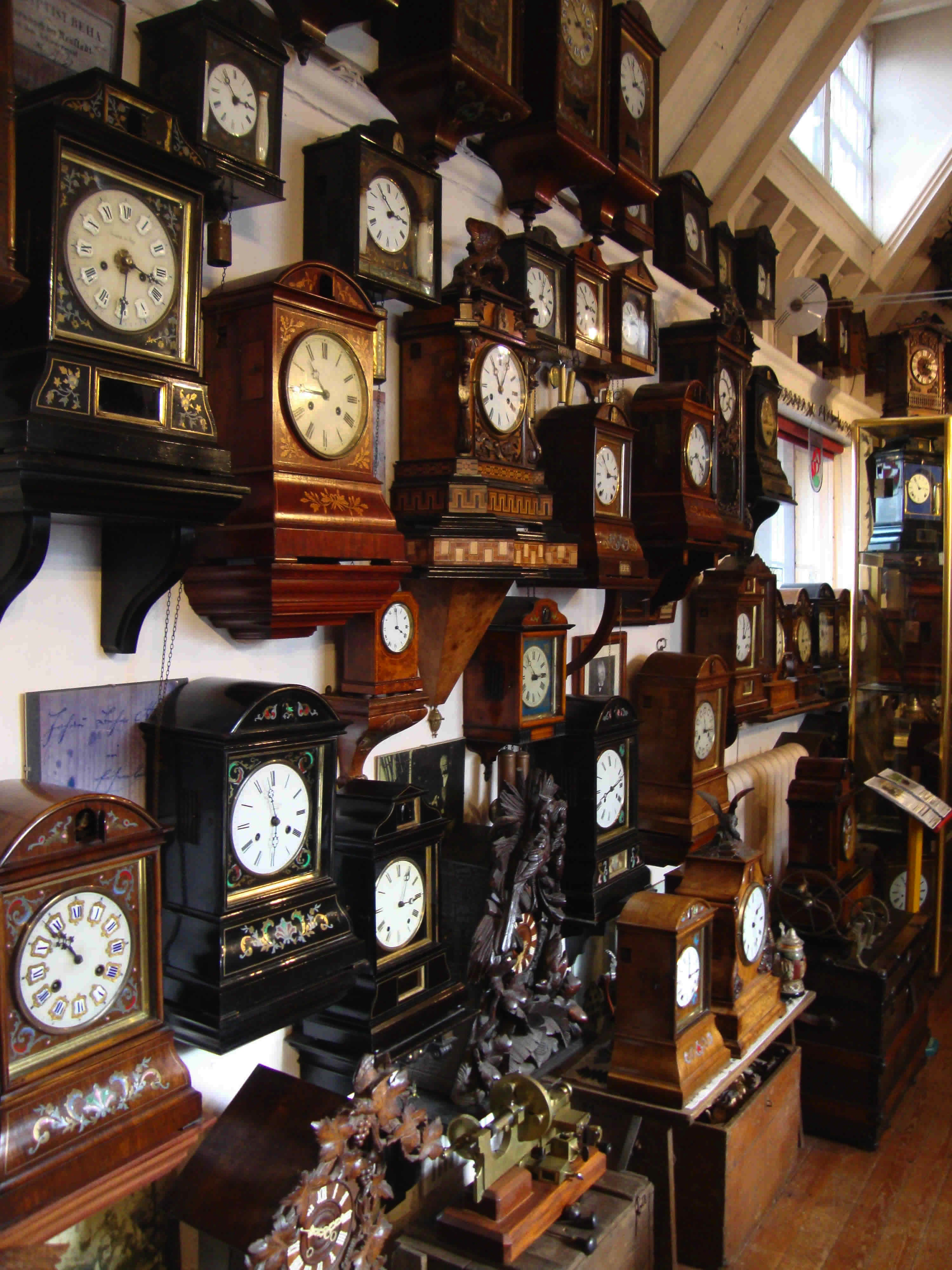 Photo of clocks at Cuckooland Museum.